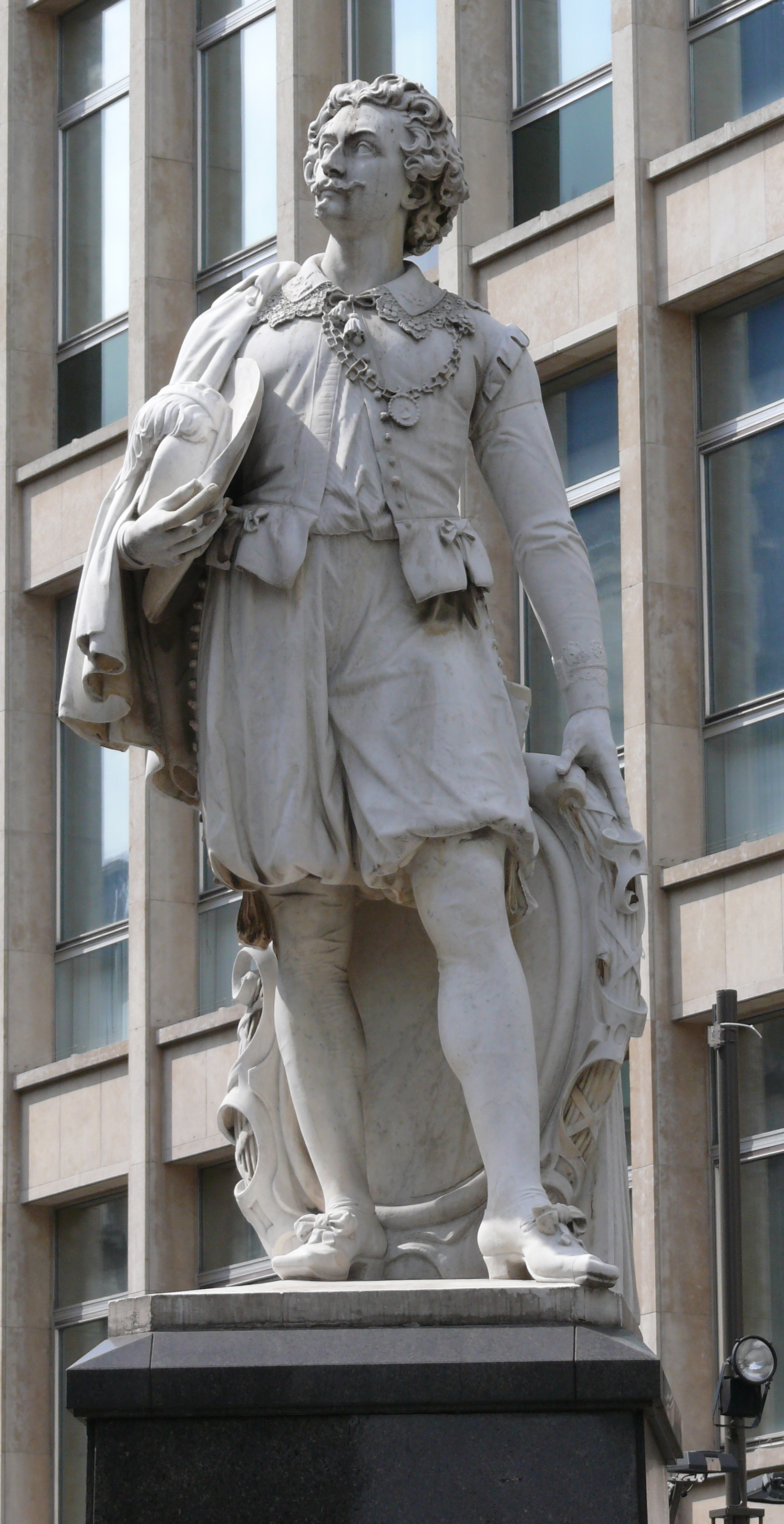 Statue of sir Anthony van Dyck (Antwerp, 1599 – London, 1641) at the Meir-Leysstraat-Jezusstraat crossing in Antwerp. The statue was made by Léonard De Cuyper (1808-1891) and erected in 1856.